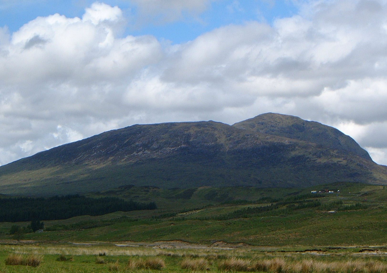 Personal photograph taken by Mick Knapton